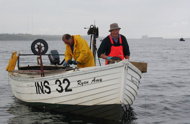 "Long-lining" for mackerel off Hopeman The Burghead radio masts are seen in the distant left and that's the Burghead maltings to the distant right. At the moment the sea abounds with mackerel which are much sought not only as a food source but also as bait for the lobster fishers' creels.